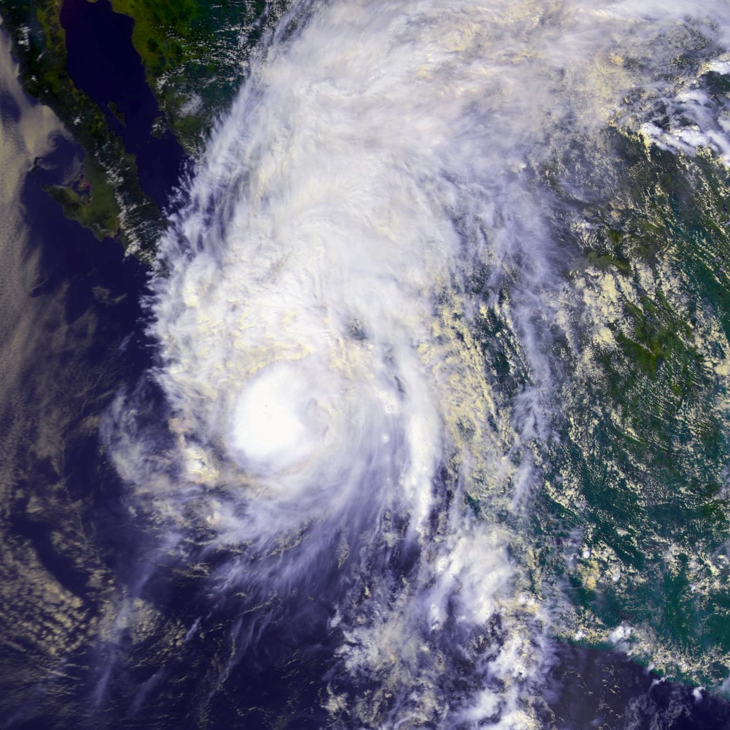 This image shows Hurricane Ismael at peak intensity on September 14 at 2016 UTC. This image was produced from data from NOAA-14, provided by NOAA.